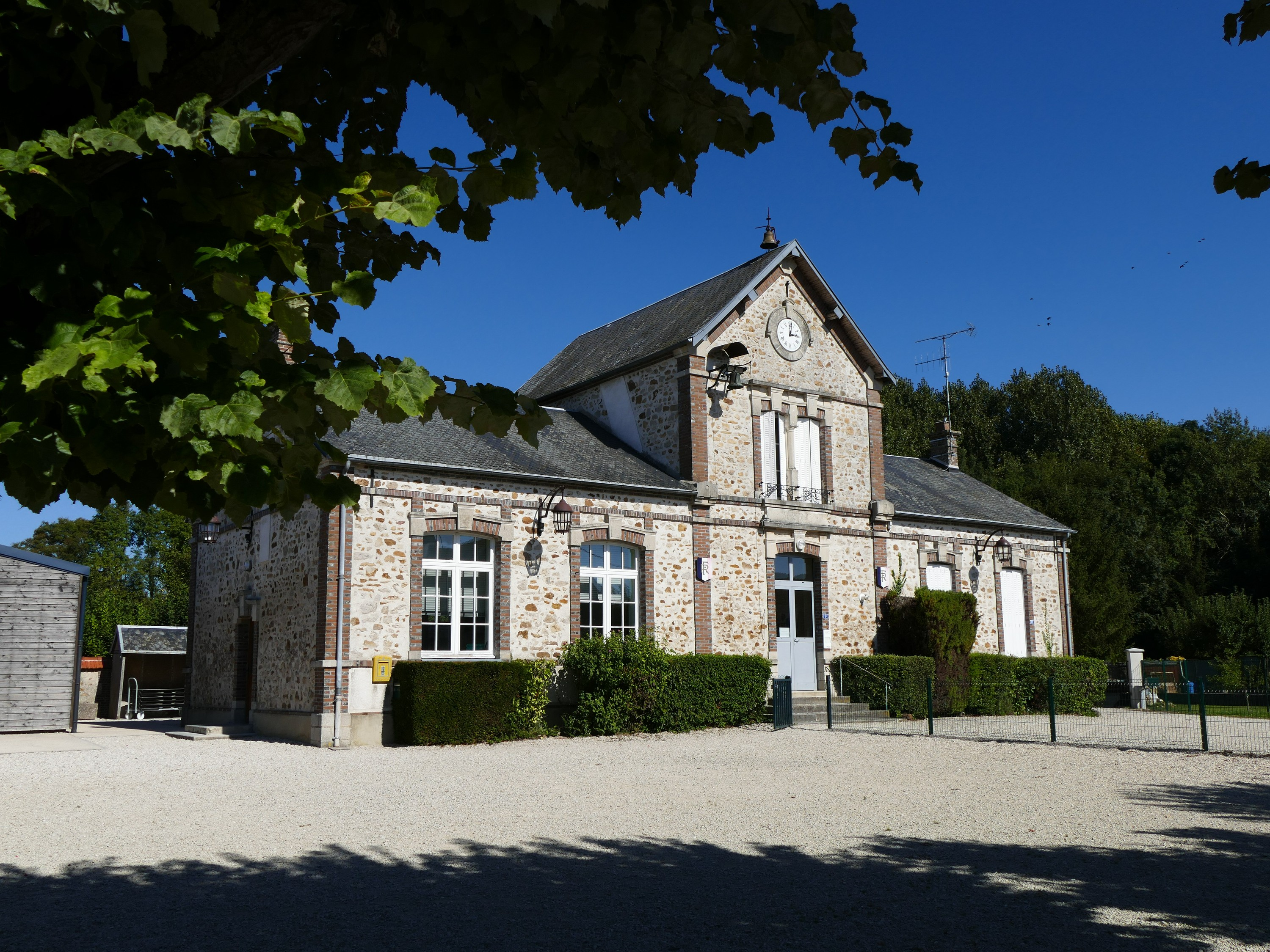 The city hall in La Fosse-Corduan (Aube, Champagne-Ardenne, France).